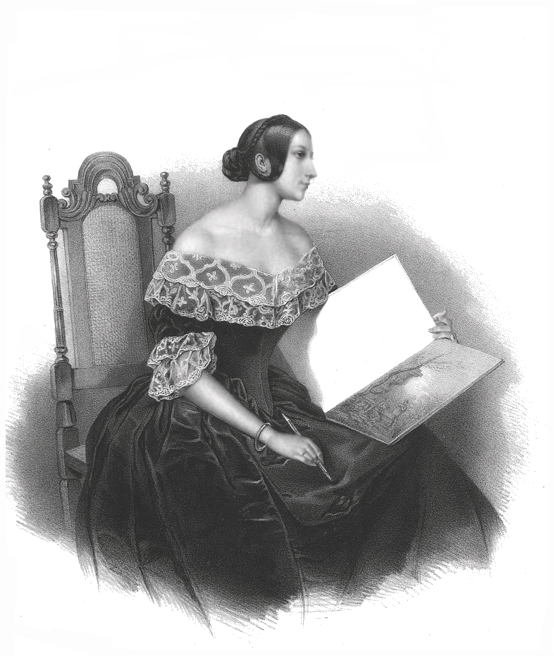 Aleksandra Potocka